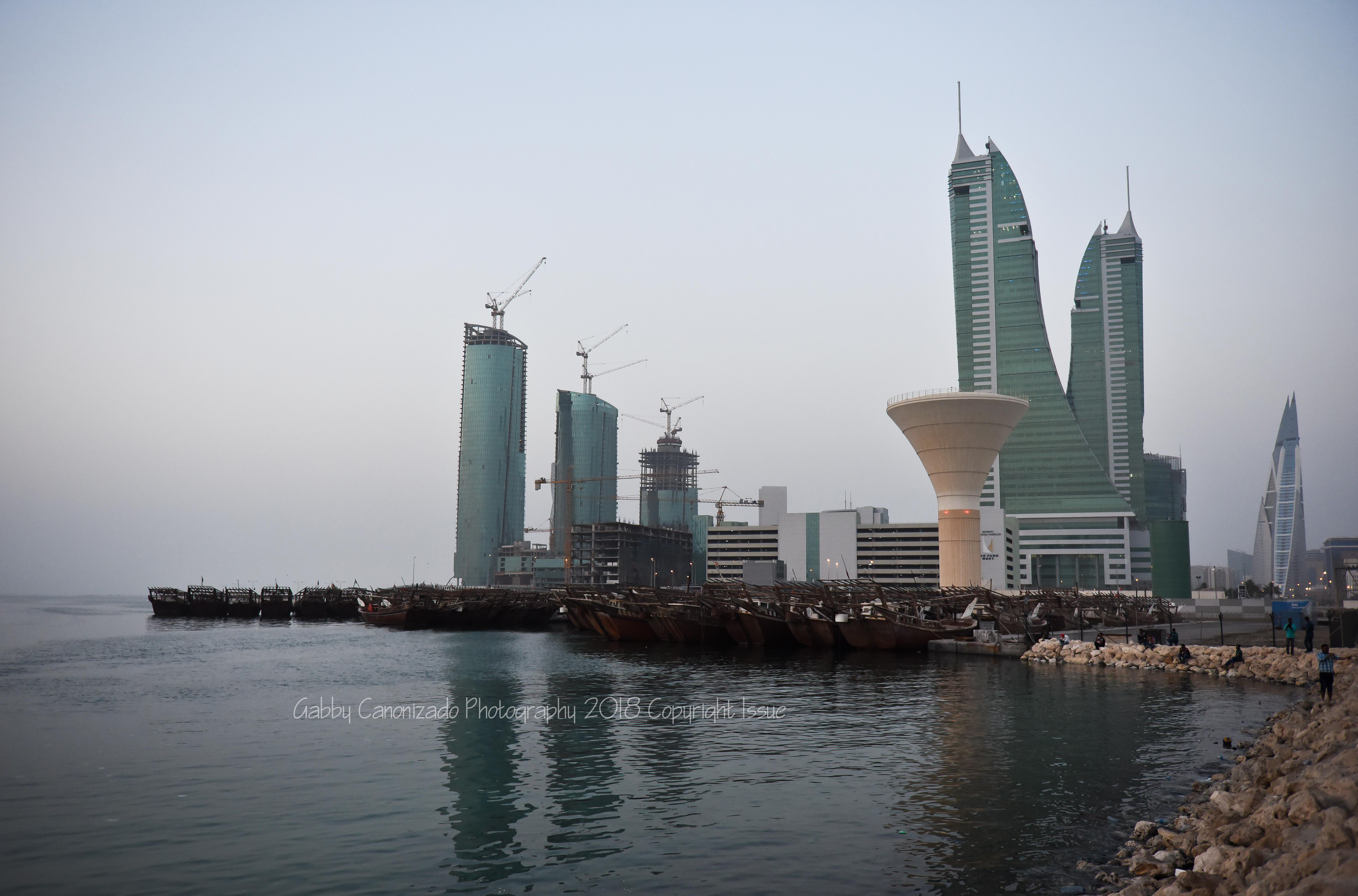 I have been out of Flickr for two weeks, been busy preparing to shift out of United Arab Emirates, now I am back in Bahrain after 6 years. Above are the Bahrain Financial Harbour Towers.